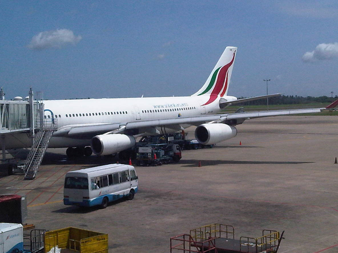 A Sri Lankan Airlines aircraft at Bandaranaike International Airport, Katunayake, Sri Lanka.